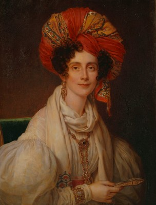 Félicité Caroline Honorine Joséphine d'Aarberg de Valangin (1790-1860), married 22 November 1809 to Georges Mouton